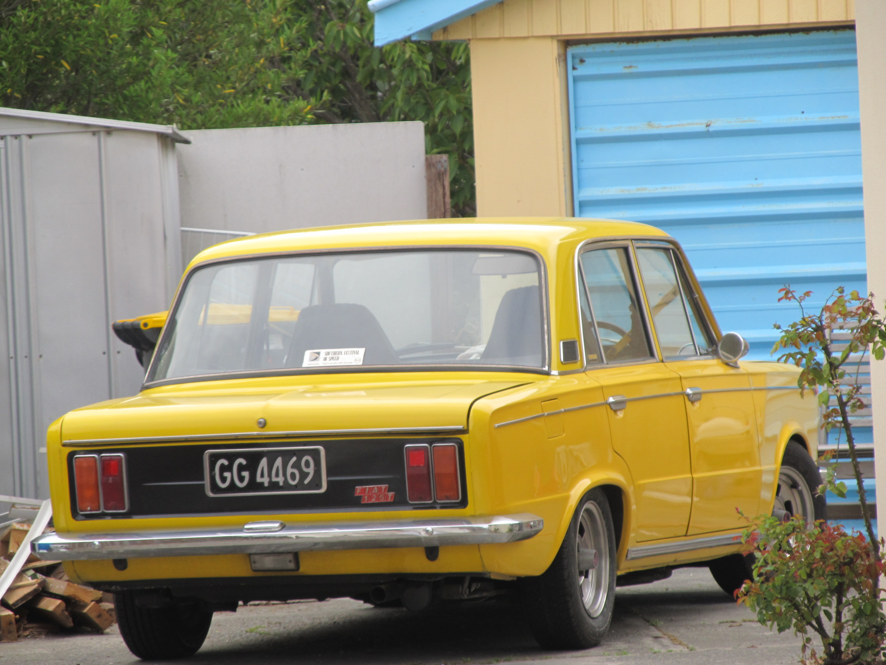 GG4469. These 125Ts (all in yellow with a black tail panel) are quite popular within the classic racing community in New Zealand. This was an NZ-only special, by local Fiat importer-distributor Torino Motors. Only 200 were made—which is odd as Fiat only tended to sell around 1000 cars a year here in 1972.